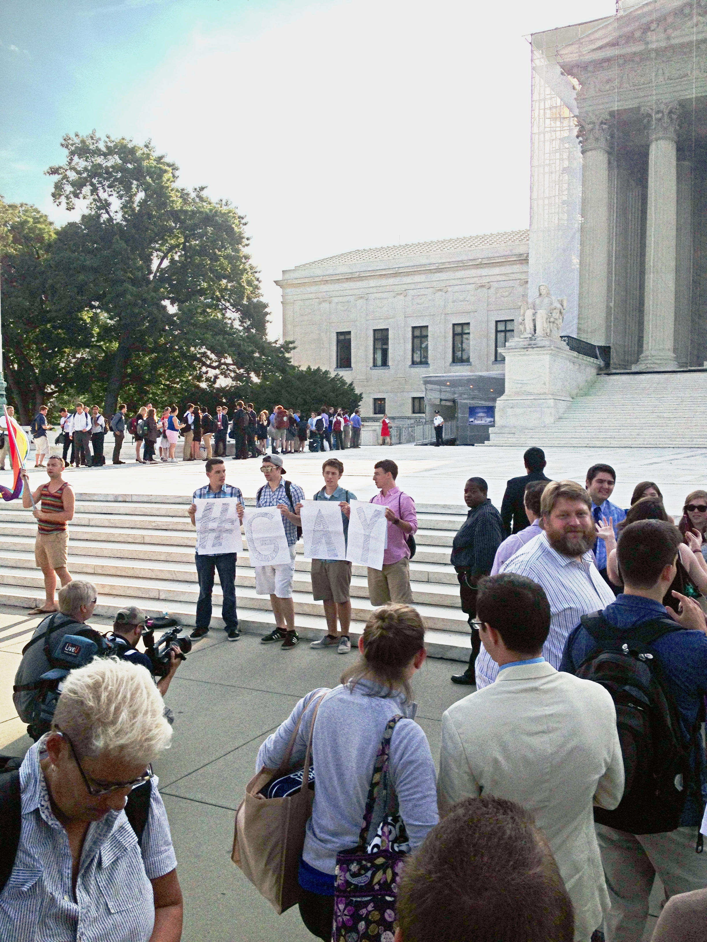 Photo of the steps of the United States Supreme Court building on the morning of June 26, 2013, hours before the court overturned the Defense of Marriage Act. There are people in line to enter the Supreme Court, as well as people in support of the eventual overturning.